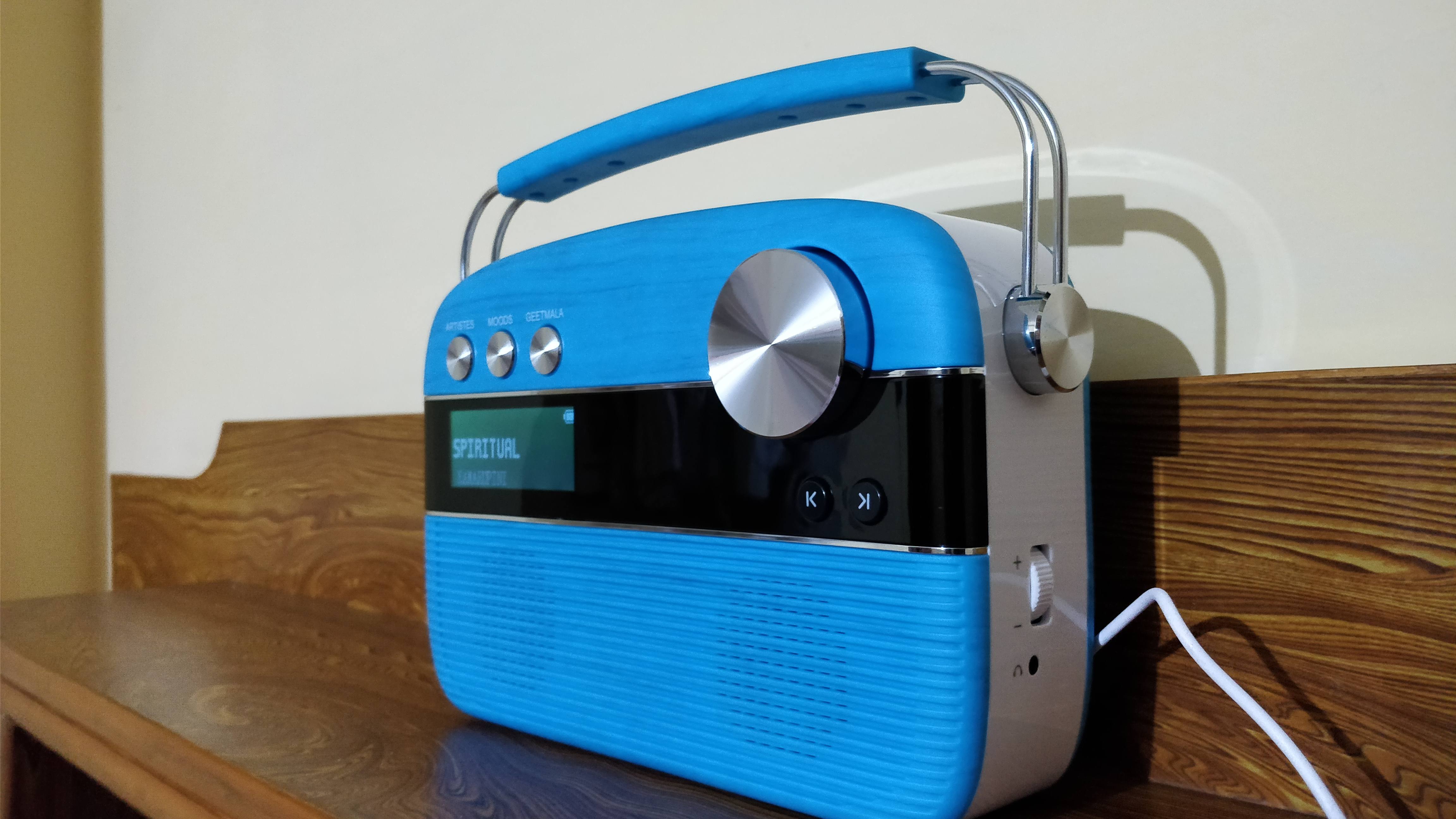 Saregama Carvaan blue.